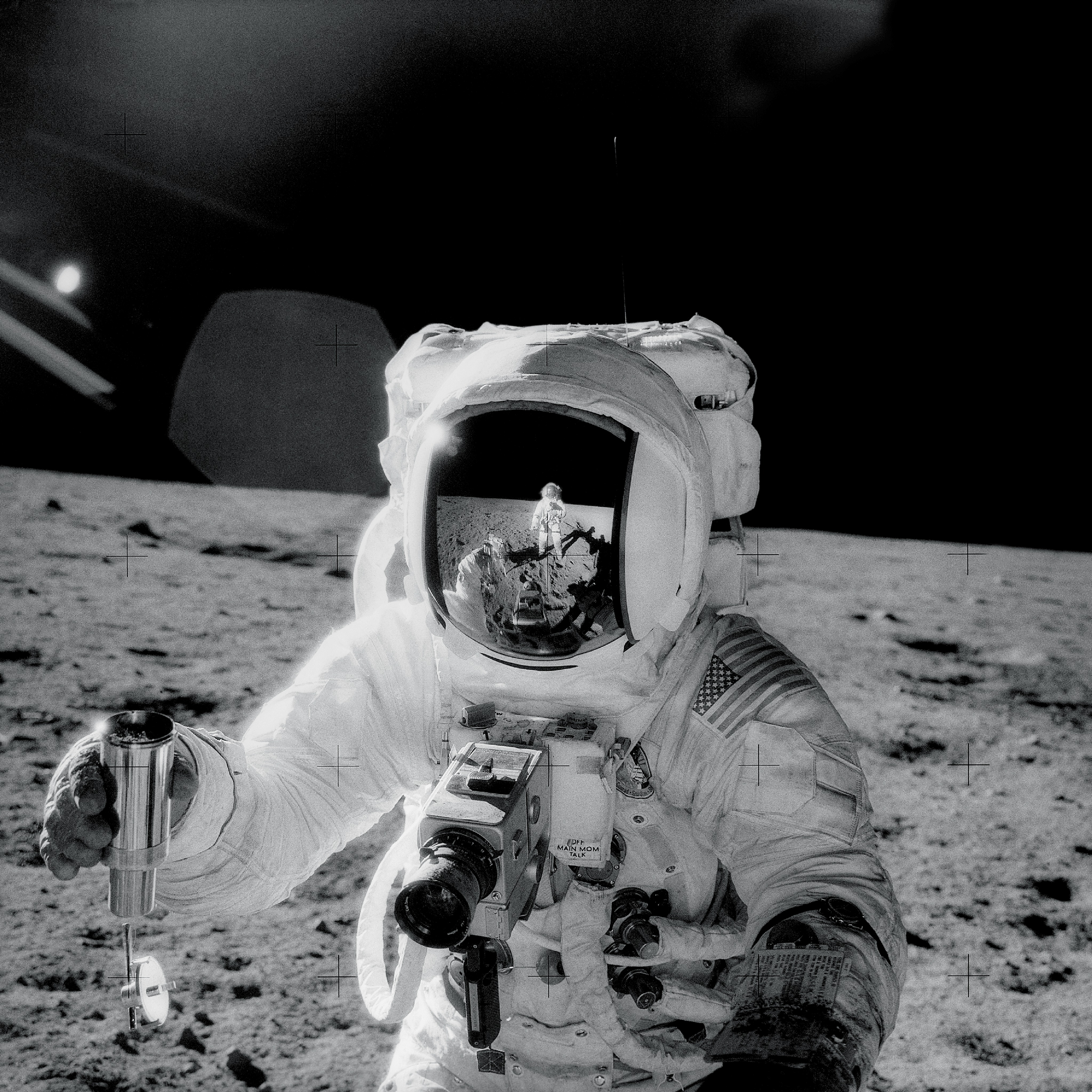 Apollo 12 astronaut Alan Bean holds a special environmental sample container which holds soil collected during the second moonwalk EVA. Commander Charles "Pete" Conrad had just put a soil sample in the tube with a shovel. The picture was taken in the vicinity of Sharp Crater. Conrad took the photograph and can be seen in the reflection in Bean's visor. (Apollo 12, AS12-H-49-7278)